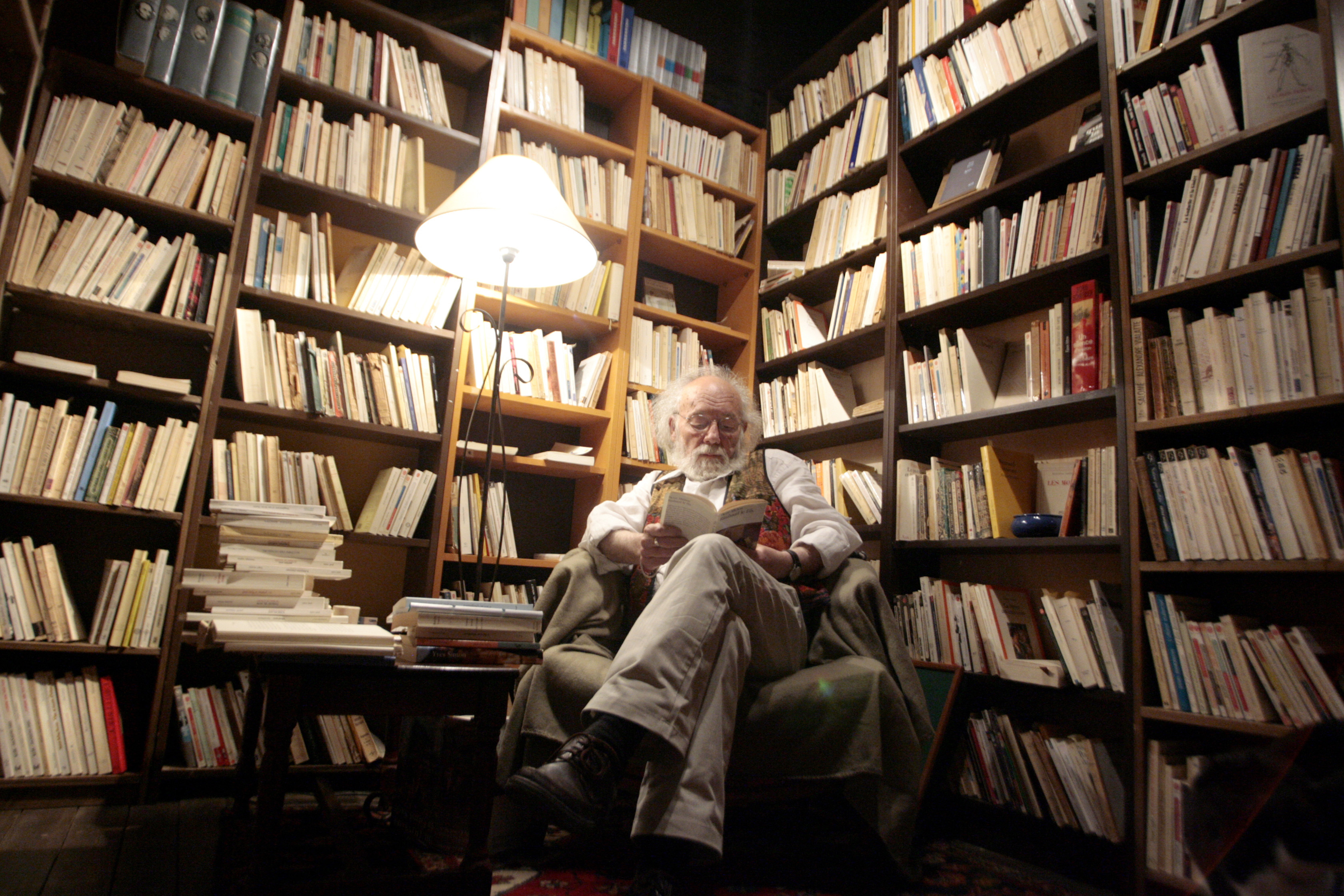 Lambert Schlechter, Luxembourg author, Eschweiler, April 2009.